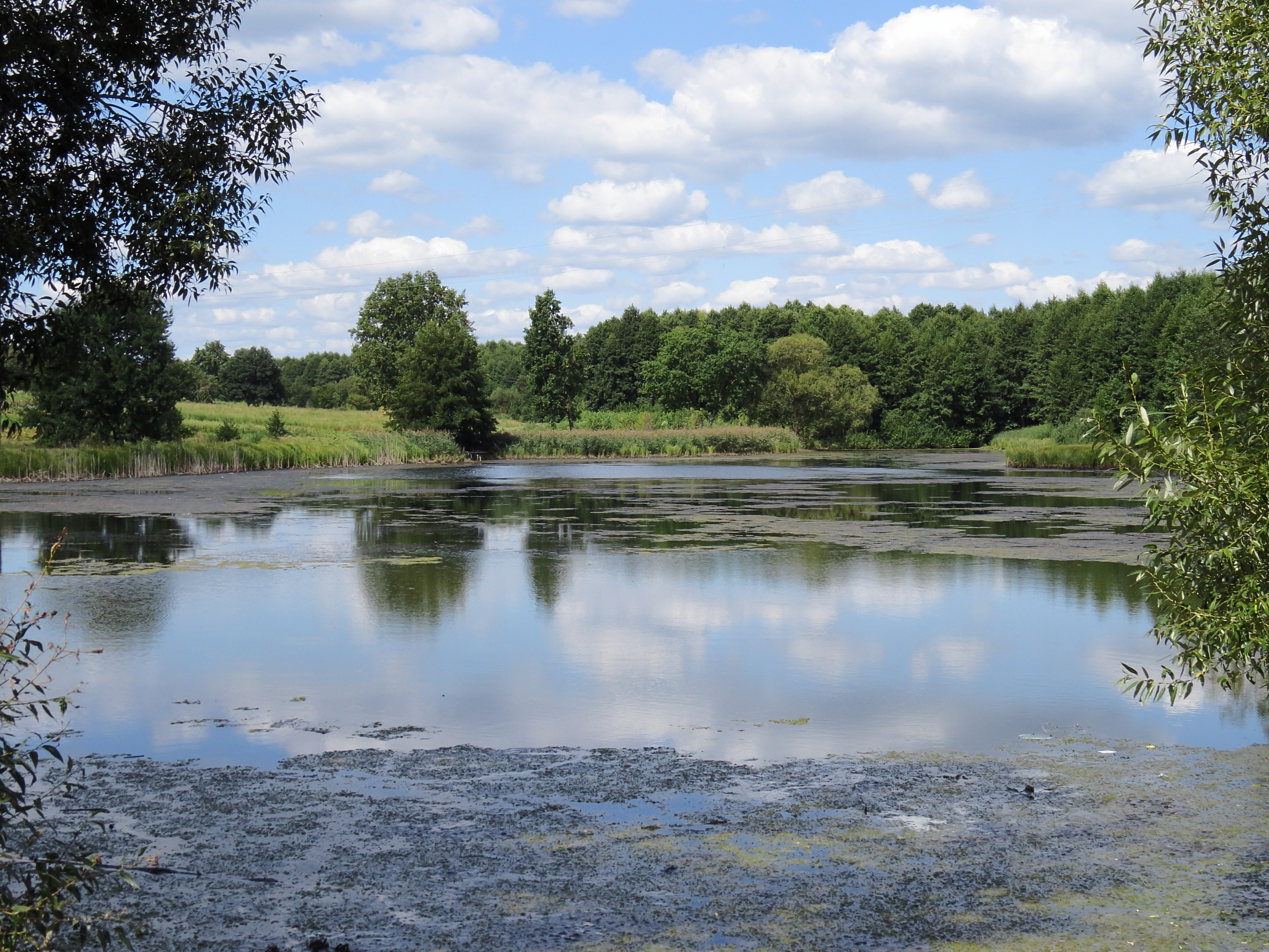 Pond in Dmytrivka village, Fastiv raion, Kiev oblast, Ukraine